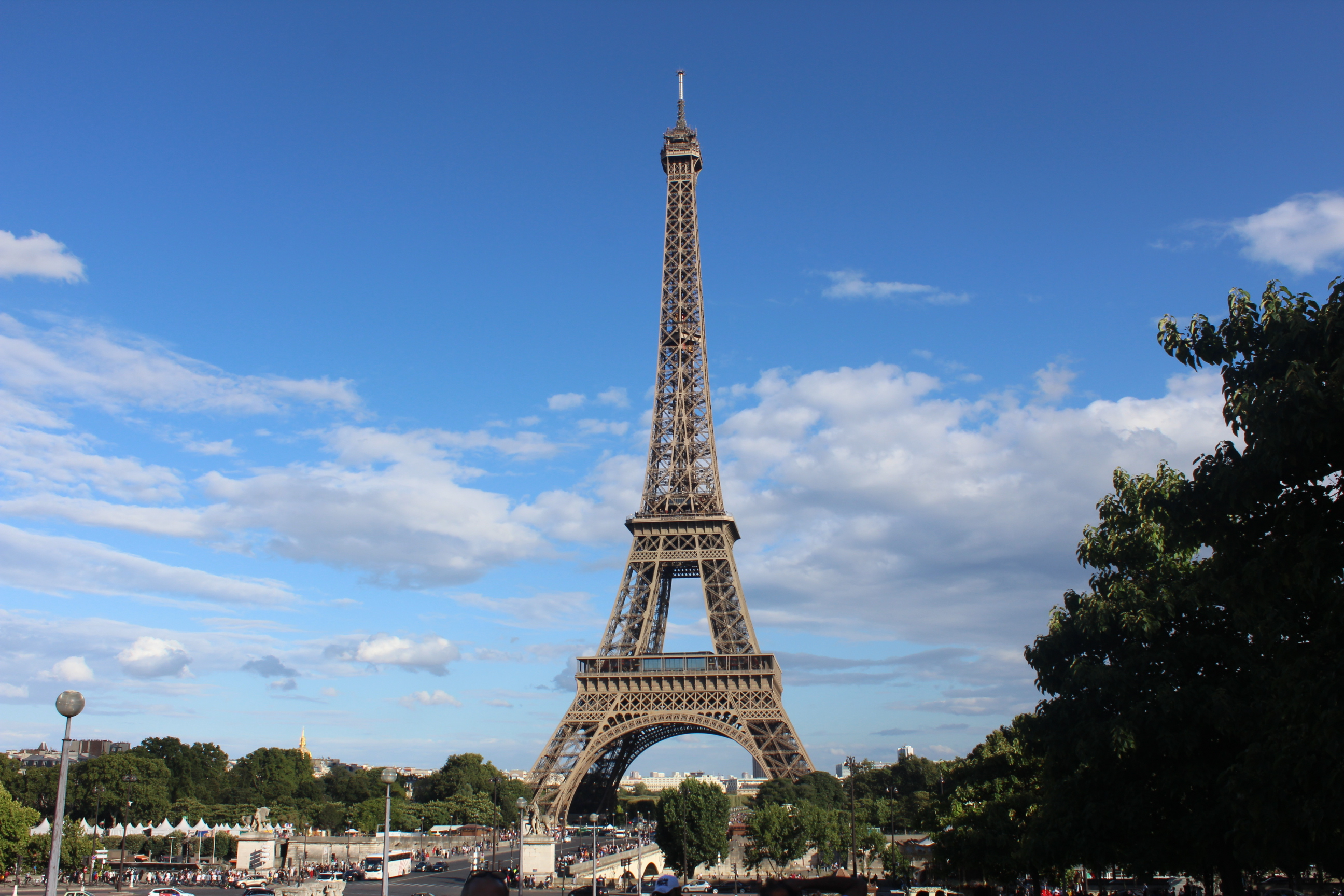 Paris, France